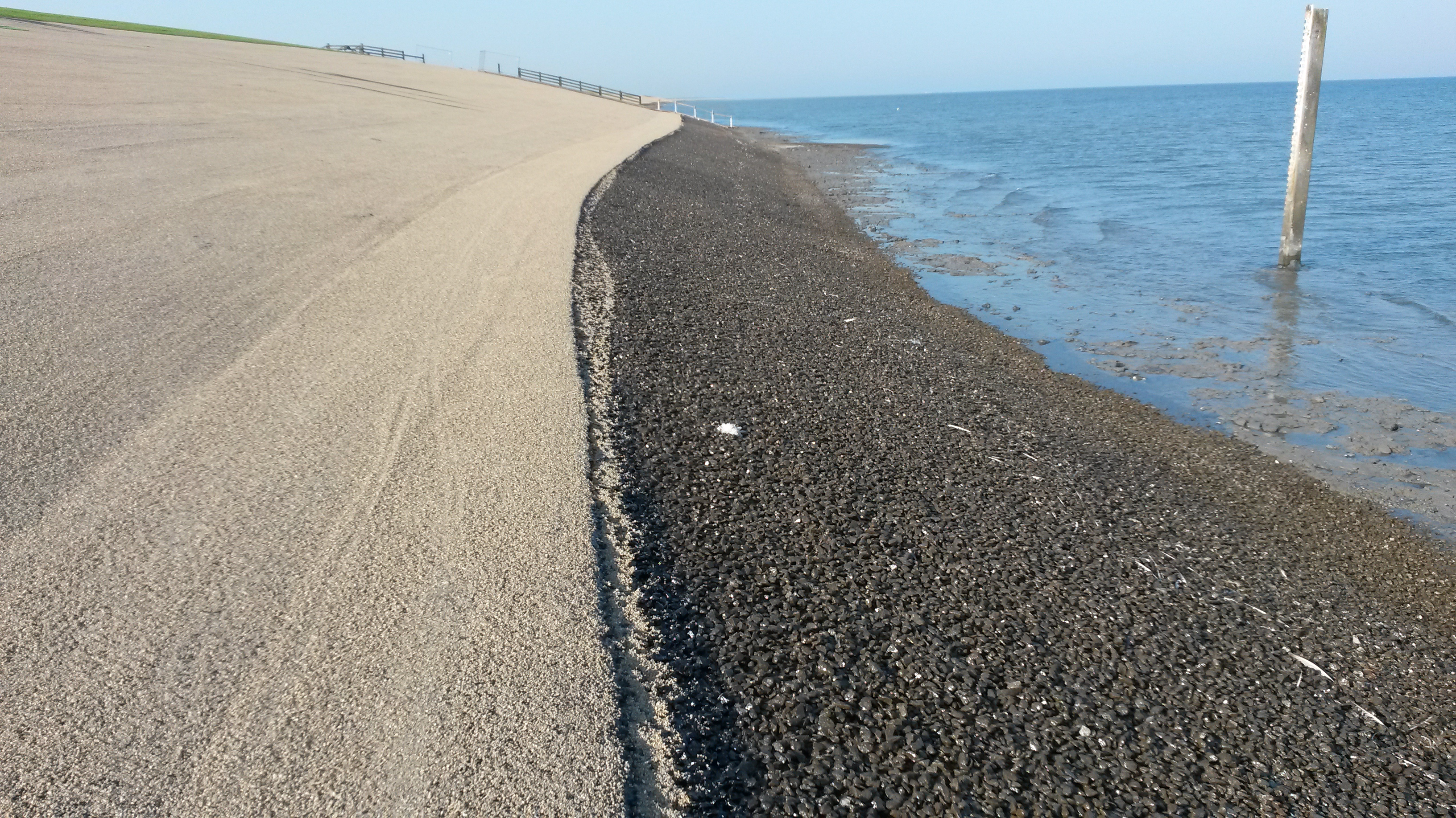 Elastocoast revetment (lower part) on a dike near Holwerd, Netherlands. This layer is placed on top of an unsifficient Basalt layer. Requirement was that the layer is permeable (in contradiction to the asphalt layer on the higher part of the slope)